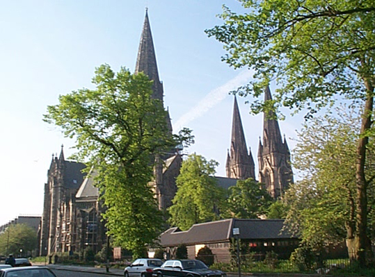 St. Mary's Cathedral, Edinburgh, Episcopal, in 2001.